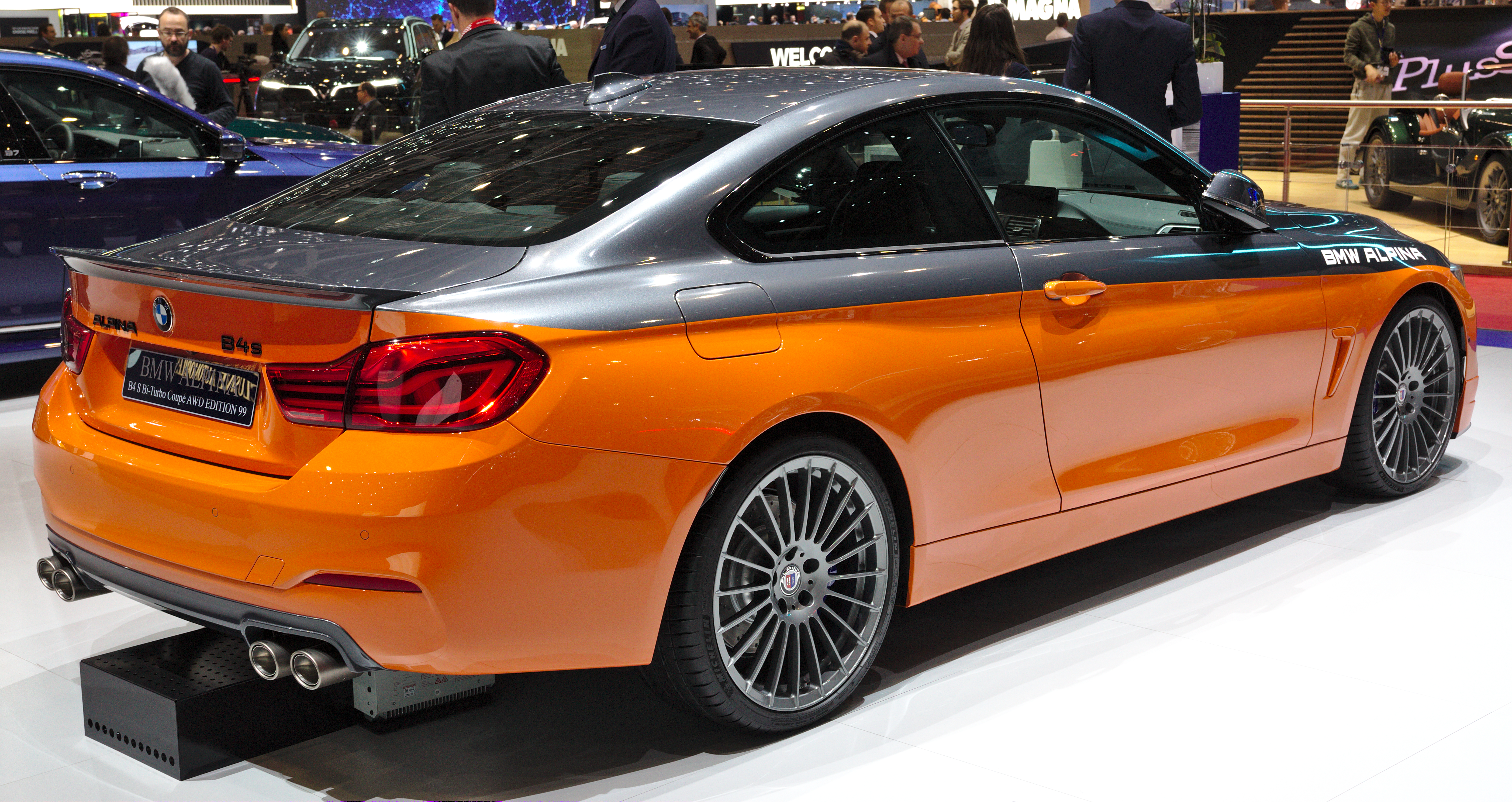 Alpina B4 S Bi-Turbo Edition 99 Coupé AWD at Geneva Motor Show 2019